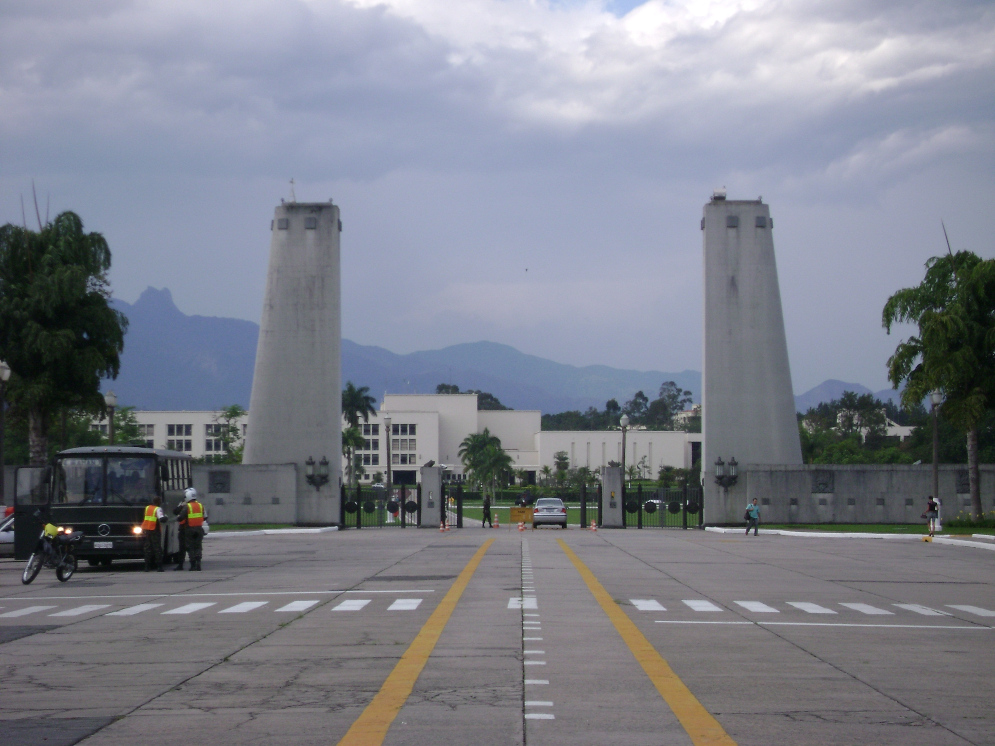 Main entrance of Academia Militar das Agulhas Negras (Resende, RJ, Brazil)